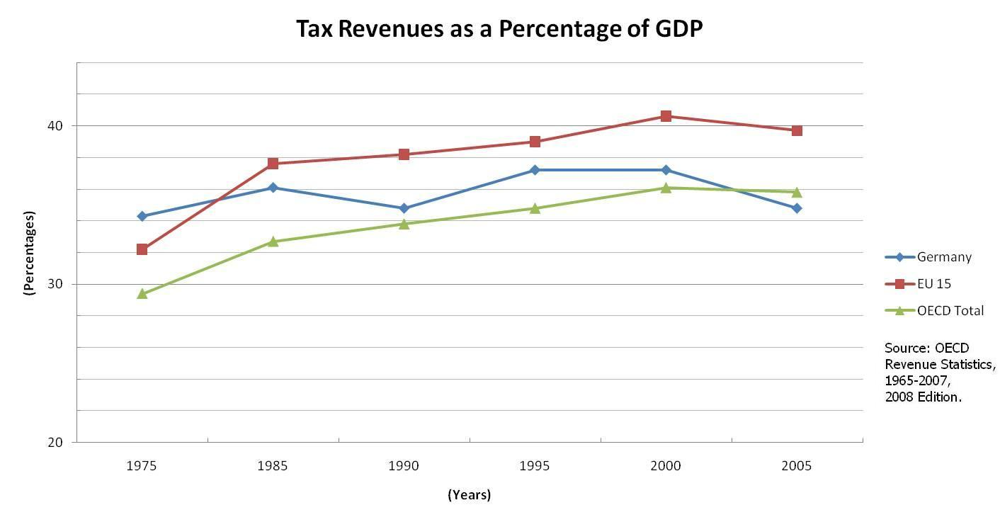 This image portrays total tax revenue as a percentage of GDP for Germany (for West Germany before 1995) in comparison to both the unweighted average for the OECD as well as for the EU 15. Note that the EU 15 area countries are: Austria, Belgium, Denmark, Finland, France, Germany, Greece, Ireland, Italy, Luxembourg, Netherlands, Portugal, Spain, Sweden and United Kingdom. Further information is available here at